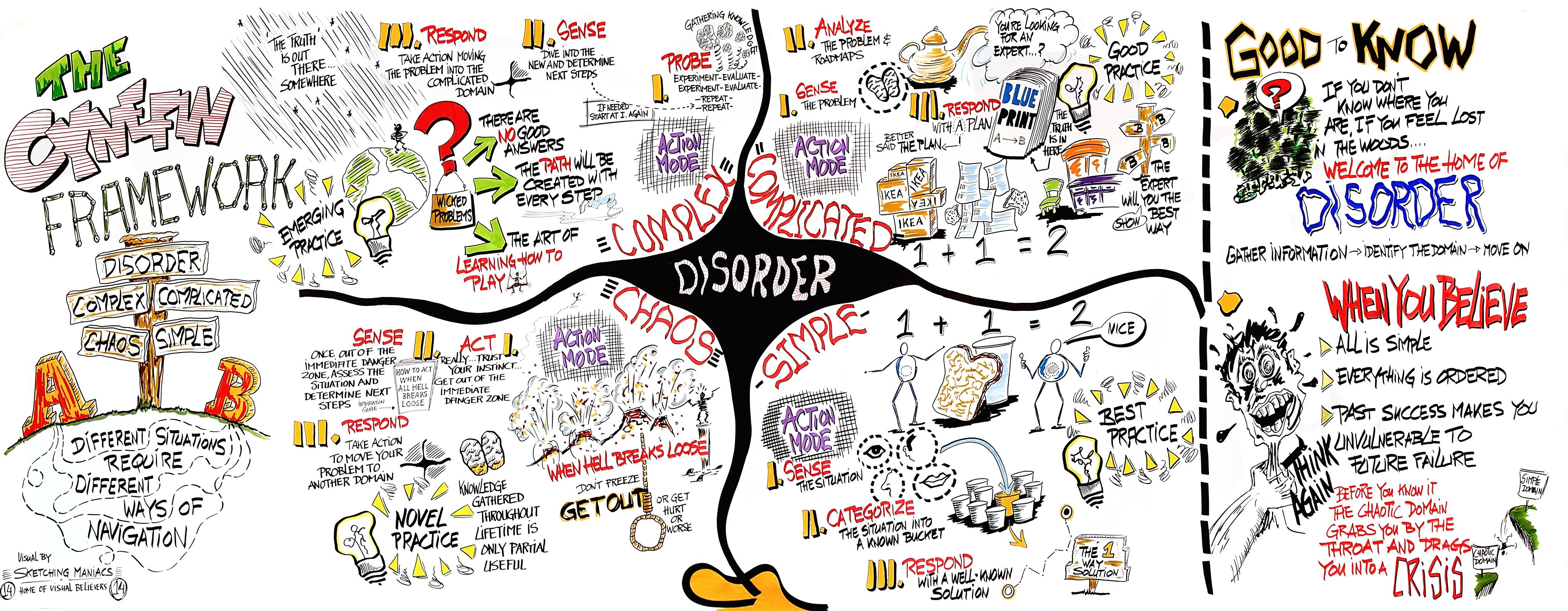 A sketch, by Edwin Stoop of Sketching Maniacs, of the Cynefin framework, a decision-making tool used in management consultancy